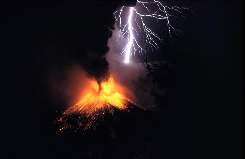 A small eruption of Mount Rinjani, with volcanic lightning. Location: Lombok, Indonesia